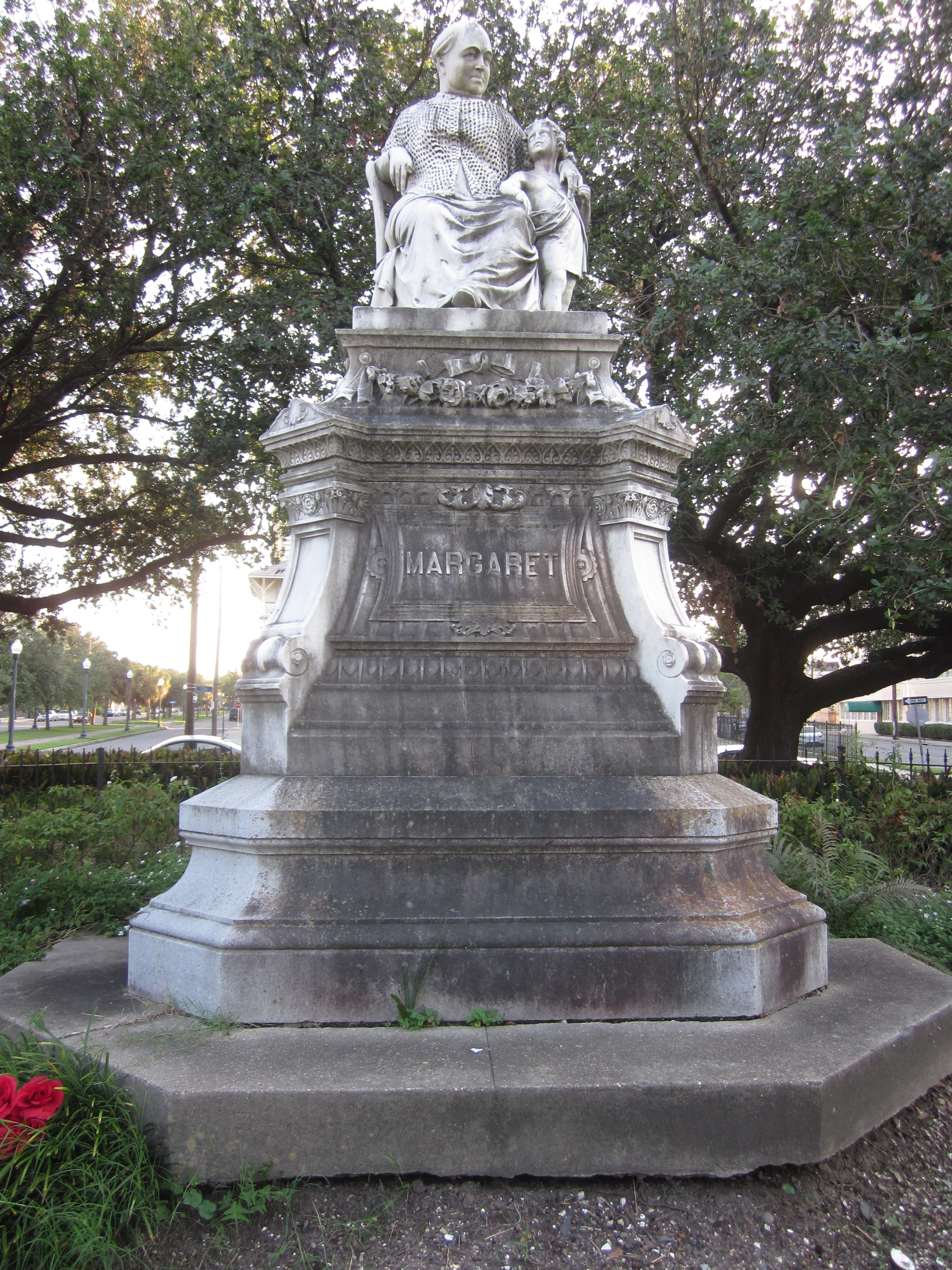 "Margaret" monument, New Orleans, Louisiana.